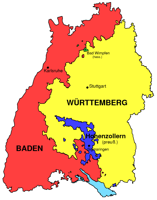 Map of the predecessor states of the German state of Baden-Württemberg (roughly the situation between 1850 and 1945).